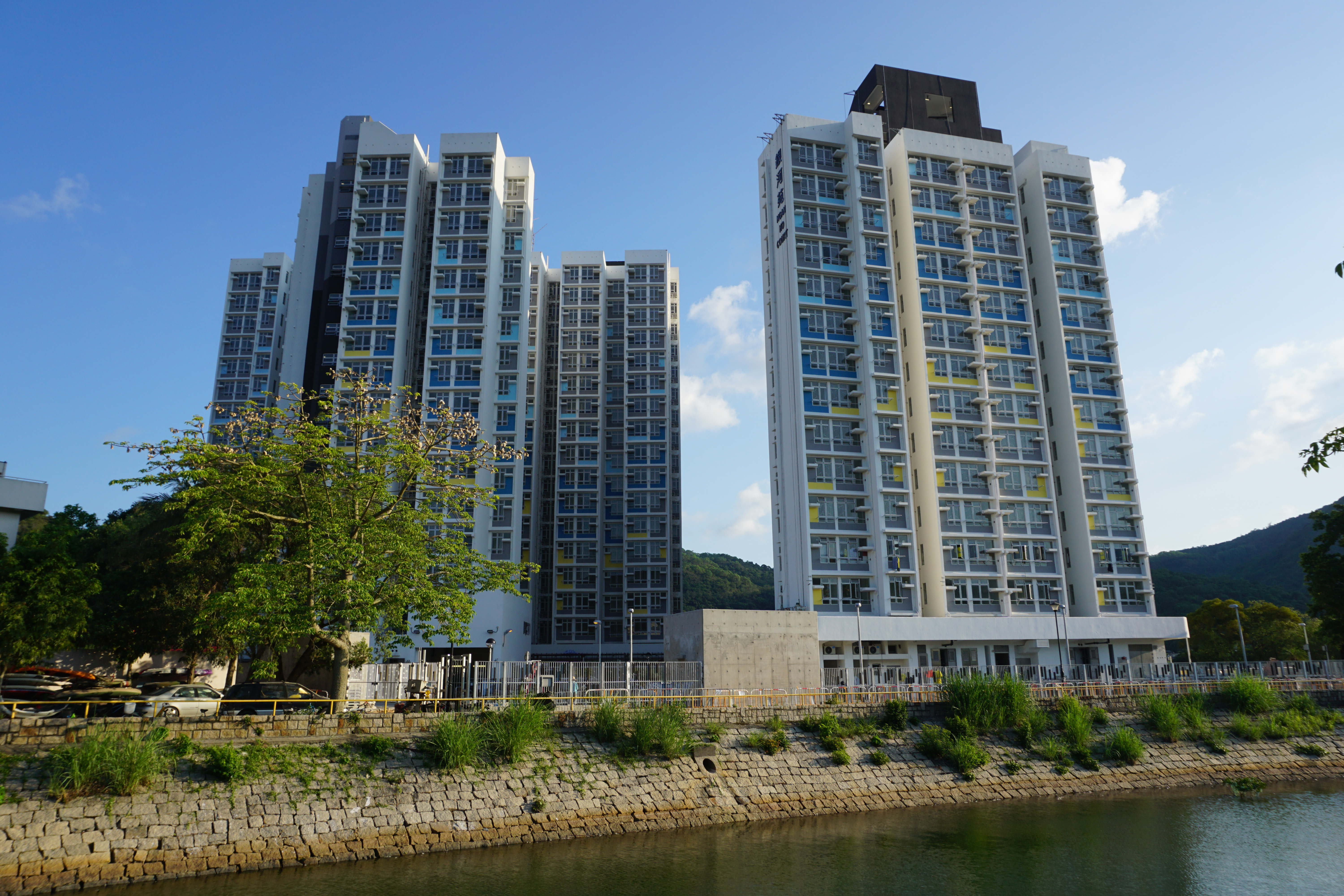 Ngan Ho Court in Mui Wo, Hong Kong.